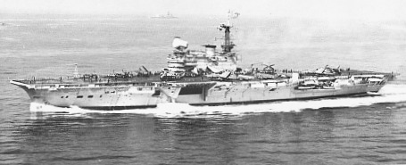 The Royal Navy aircraft carrier USS Hermes (R12) underway in the Mediterranean Sea, in 1967.